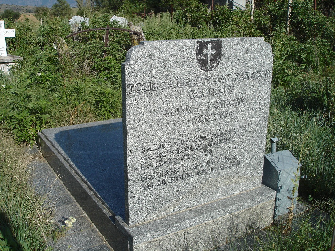 The grave of Tole Pasha - Macedonian revolutionary freedom fighter in Krushevica